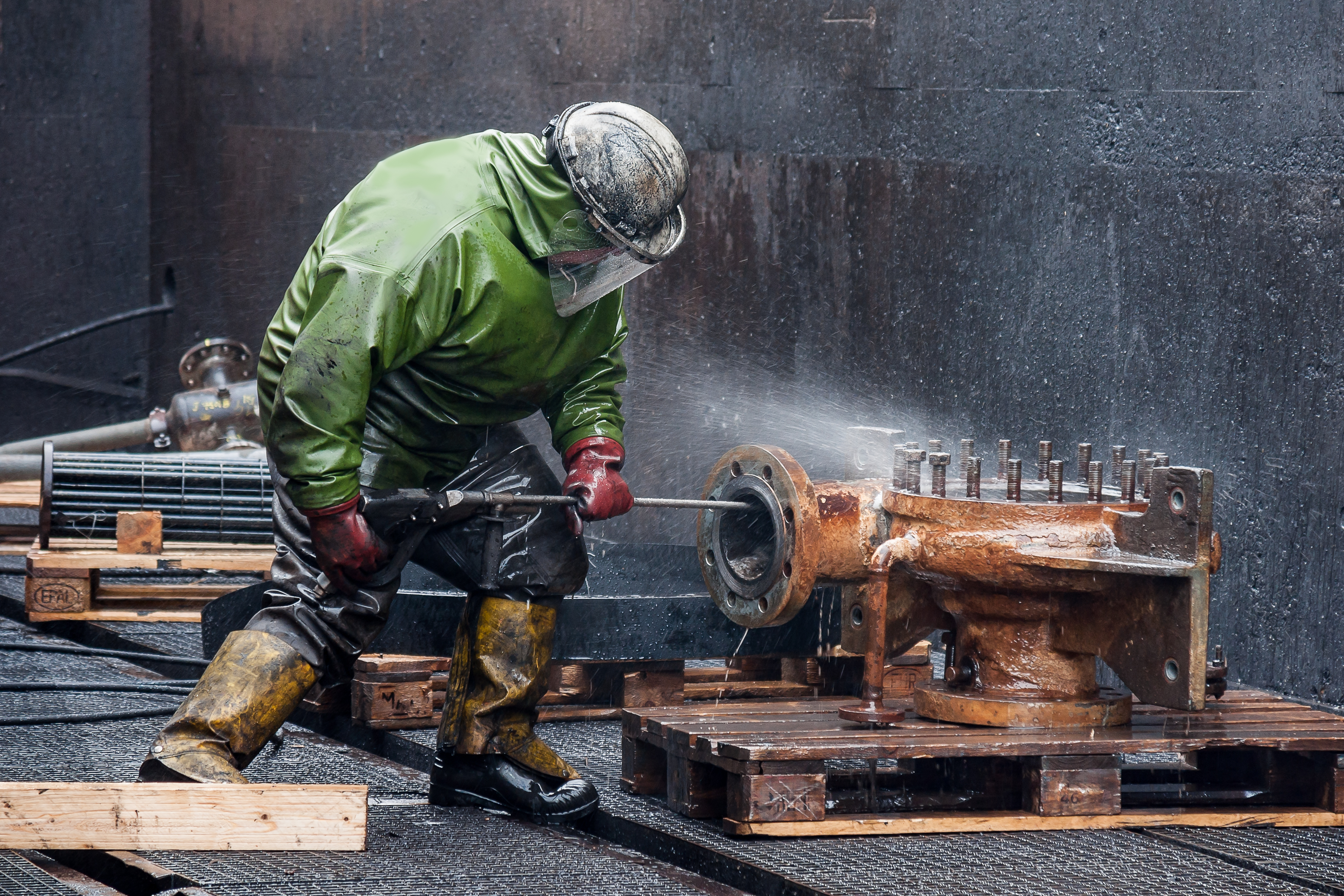 Cologne, Germany: High pressure cleaning of pressure vessel parts in the chemical industry under specialised protective equipment